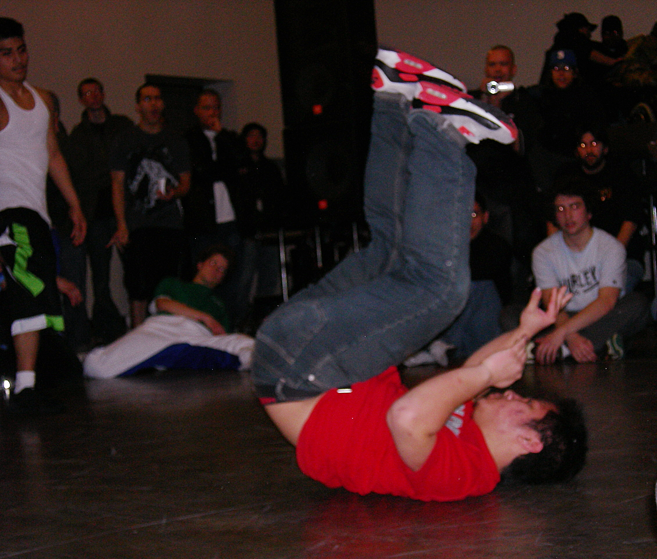 Dance competition. Third Anniversary of Zulu Nation Seattle Celebration of Hip Hop Culture, part of Festival Sundiata, a Festál event at Seattle Center, Seattle, Washington.